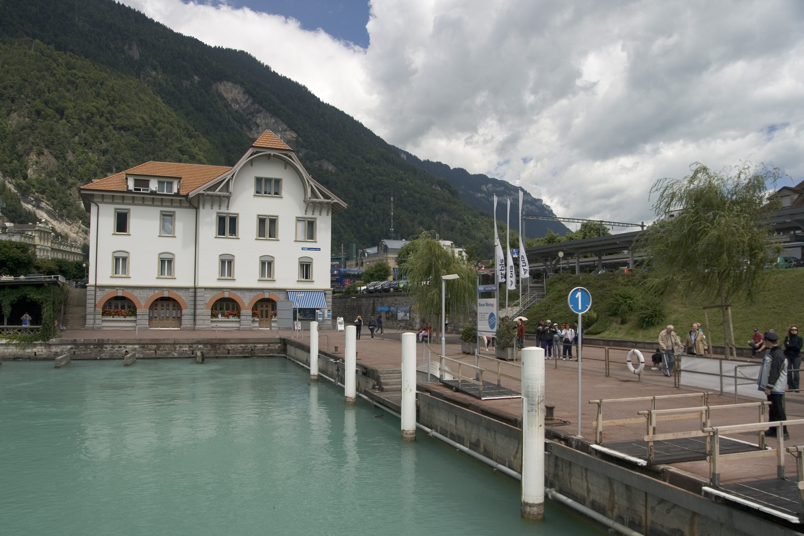 The head of the Interlaken ship canal at Interlaken West station. For more information, see the Wikipedia articles Interlaken ship canal and Interlaken West railway station